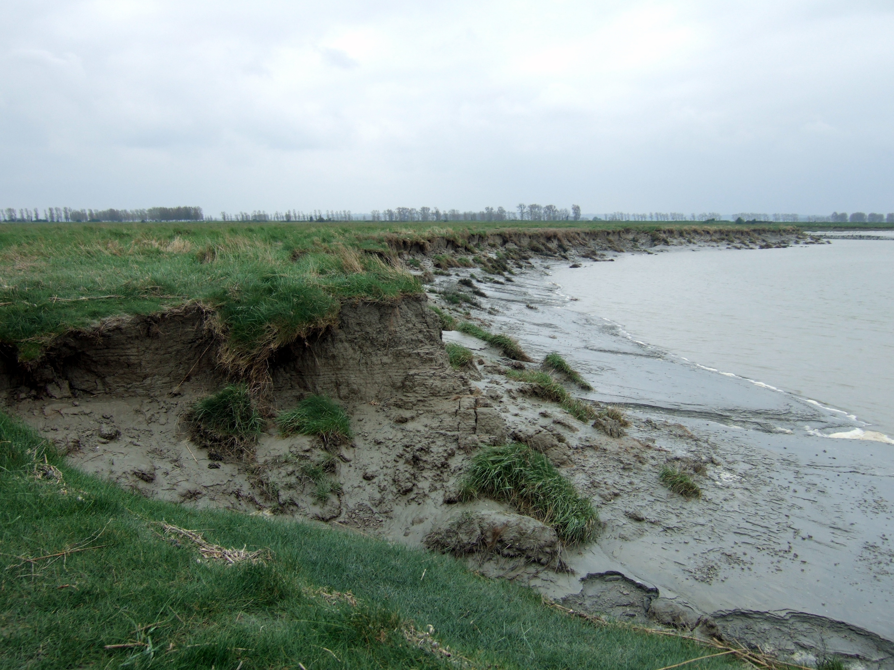 The muddy edges of the Couesnon river at low tide, about 2km from Mont St Michel.